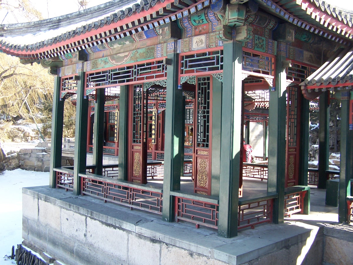 Summer Palace at Beijing, China